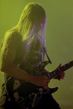 Jeff Hanneman of Slayer